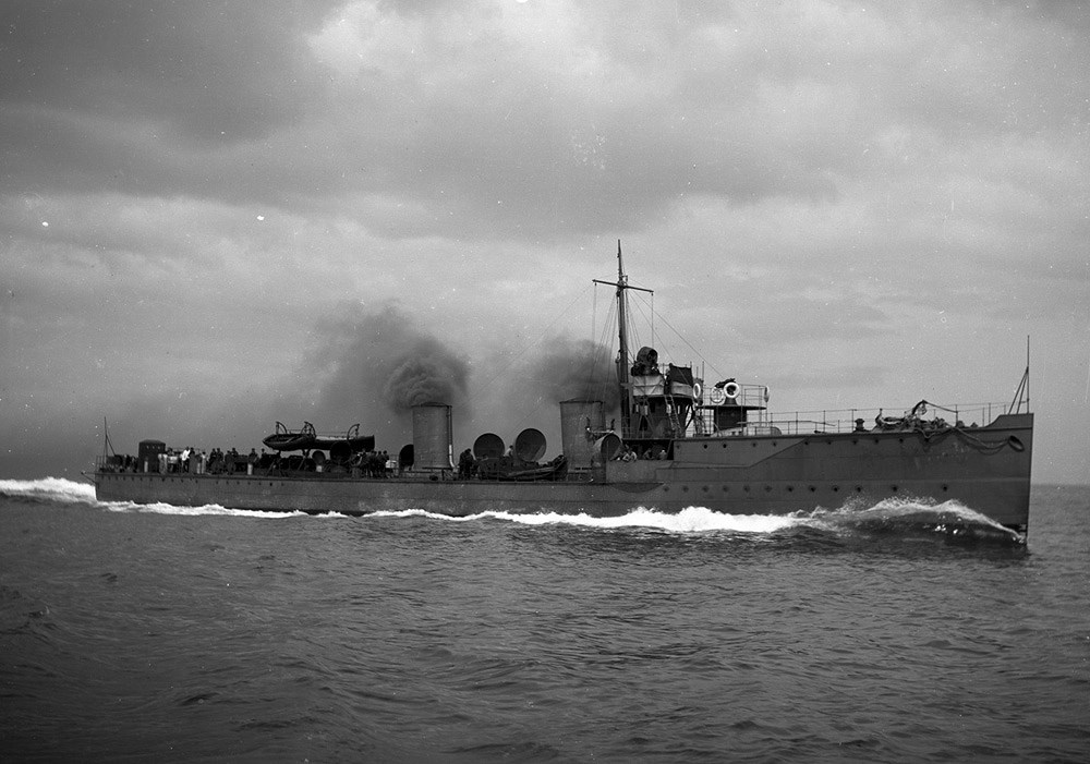 Starboard side view of HMS Waveney at sea, 1904 (TWAM ref. 2931 War13). HMS Waveney was a River Class destroyer launched by Hawthorn Leslie on 16 March 1903. During the First World War Waveney took part in anti-submarine patrols. The shipyard of R. & W. Hawthorn Leslie at Hebburn built many fine warships. During the First World War the firm built 2 light cruisers, 3 destroyer leaders and 25 torpedo boat destroyers. The firm also built machinery and boilers for 2 battleships, and a further 3 light cruisers. These and other warships built by Hawthorn Leslie before the War, are remembered in this set. There are remarkable images of warships under construction at Hebburn, as well as fascinating shots of the people who attended the launches. The set also contains majestic views of the ships at sea. The images are not only a testimony to the skill of those who designed and built these ships but also to the courage of those who sailed in them. (Copyright) We're happy for you to share these digital images within the spirit of The Commons. Please cite 'Tyne & Wear Archives & Museums' when reusing. Certain restrictions on high quality reproductions and commercial use of the original physical version apply though; if you're unsure please